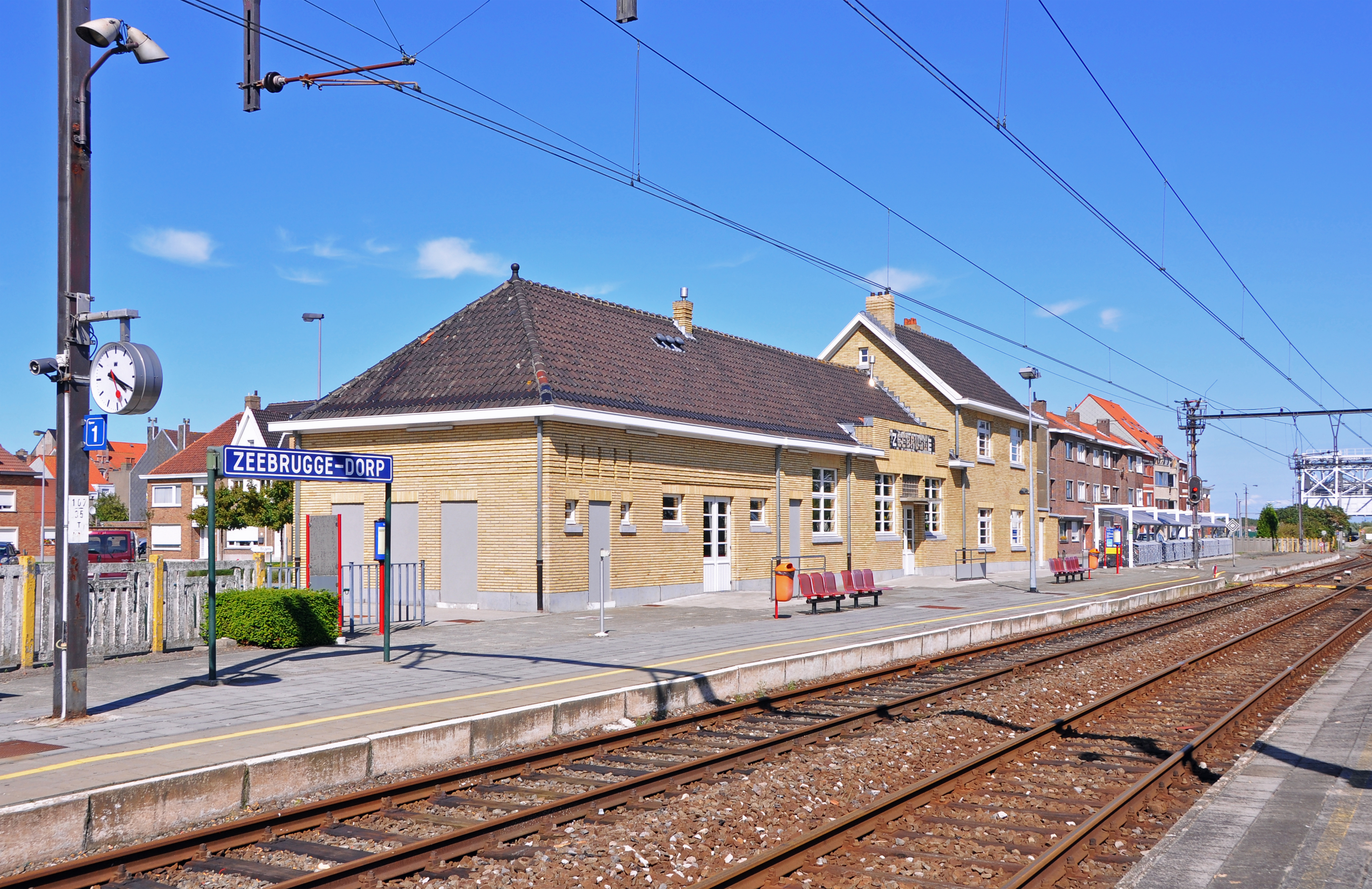 Train station of Zeebrugge-Dorp (Belgium)